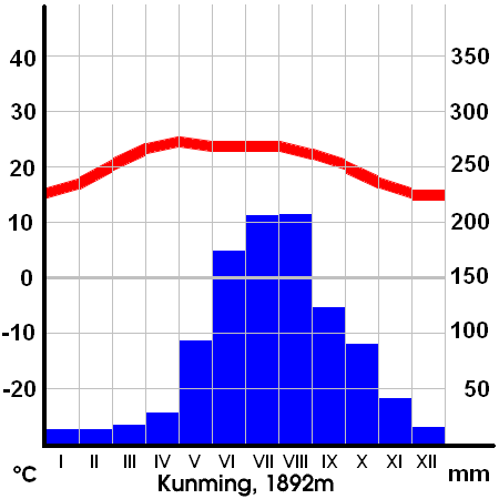 Kunming maximum temperature and rainfall. Data from WMO, software Klimadiagramm.